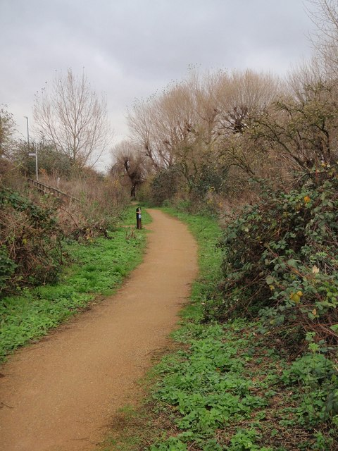 Wandle Trail The trail, followed by NCN22, has the river on its right as it approaches a turning leading to Weir Road on the left.